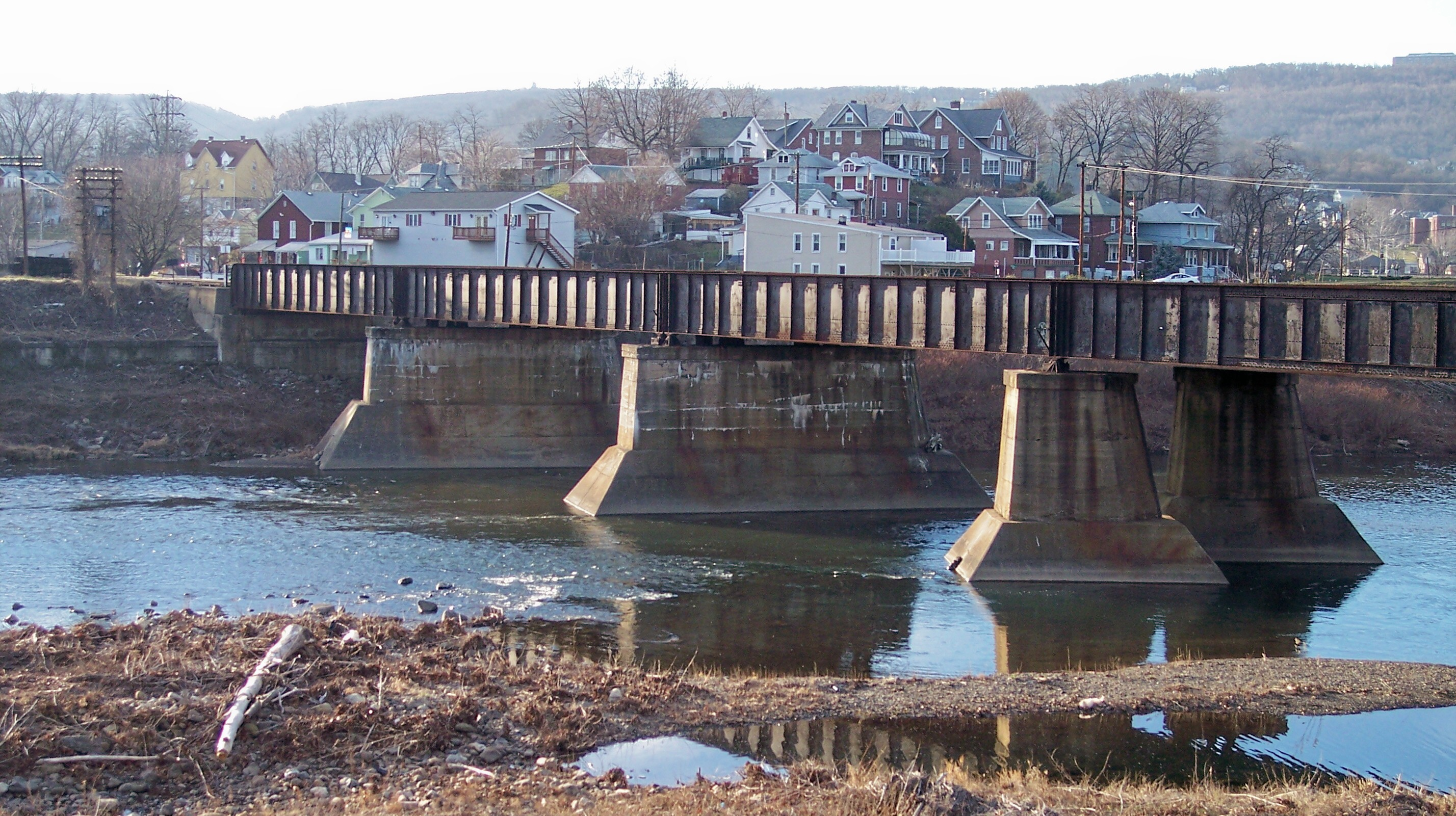 Ridgeley, West Virginia, as viewed from across the North Branch Potomac River in Cumberland, Maryland.